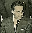 Victor Paz Estenssoro (1955), the President of Bolivia (cropped)